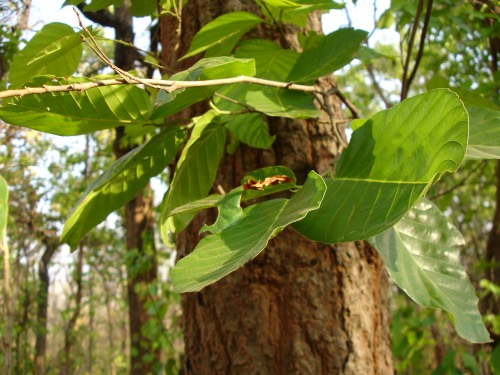 Sal, Sarai or Sargi Tree of Chhattisgarh, India